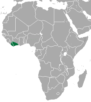 Doucet's Musk Shrew (Crocidura douceti) range